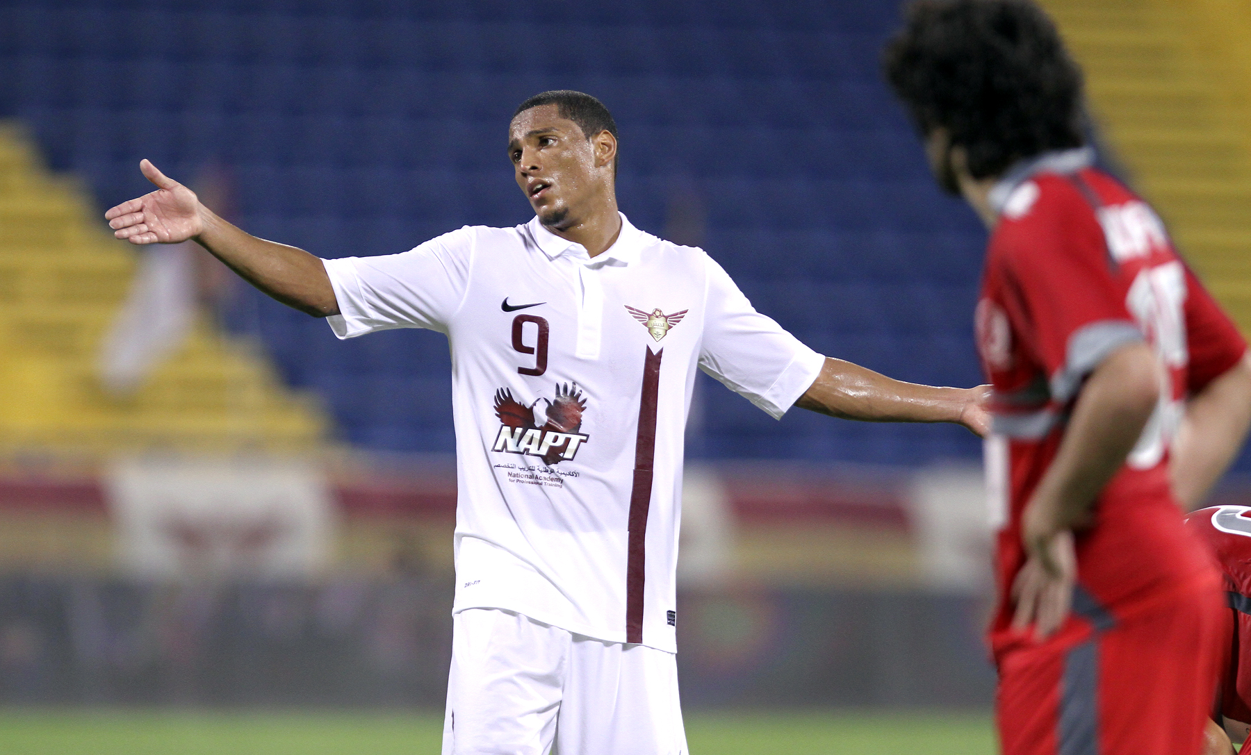 El Jaish's Brazilian professional Adriano Ferreira Martins gestures during a Qatar Stars League match. Picture by Vinod Divakaran